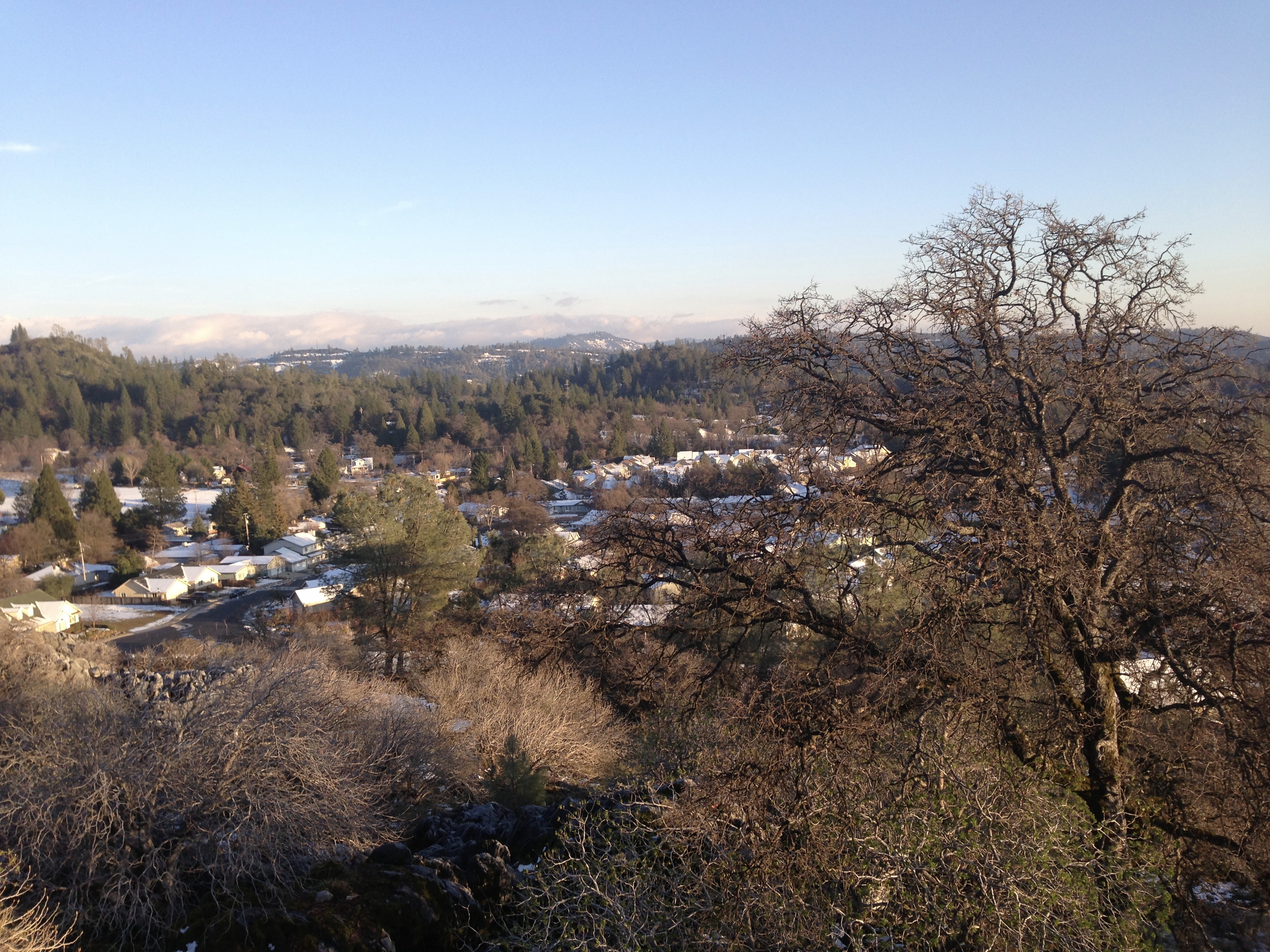 Town of Murphys from Rocky Hill neighborhood